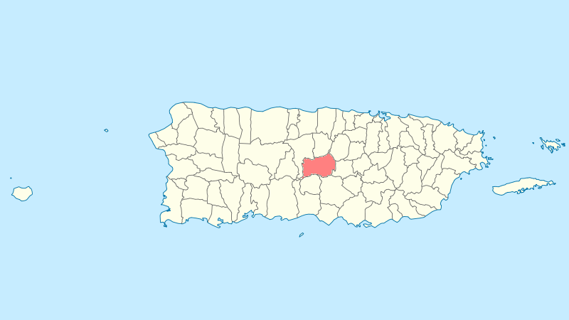 Municipal locator of Puerto Rico